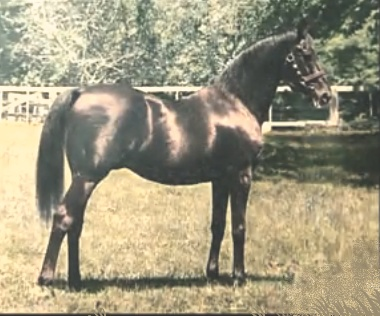 Foxbridge (GB)